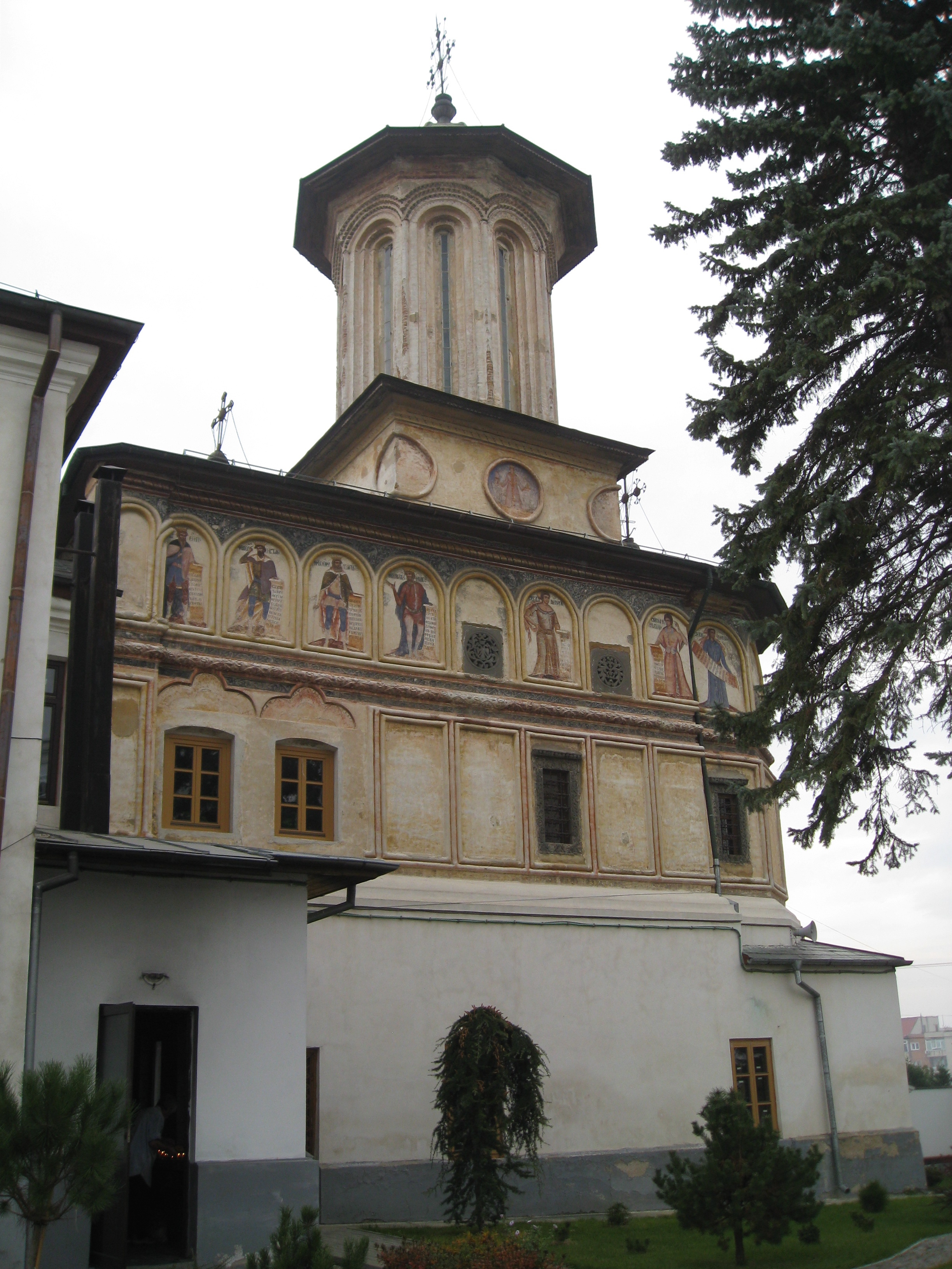 "Paraclis", Râmnicu Vâlcea, Romania 03 Aceasta este o imagine cu un sit arheologic din România, clasificat cu numărul 167482.15.01.